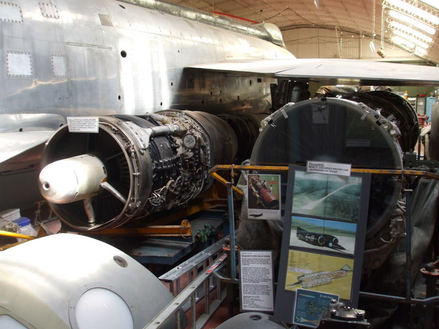 Jets off the ThrustSSC supersonic car, at Flixton Airmuseum.